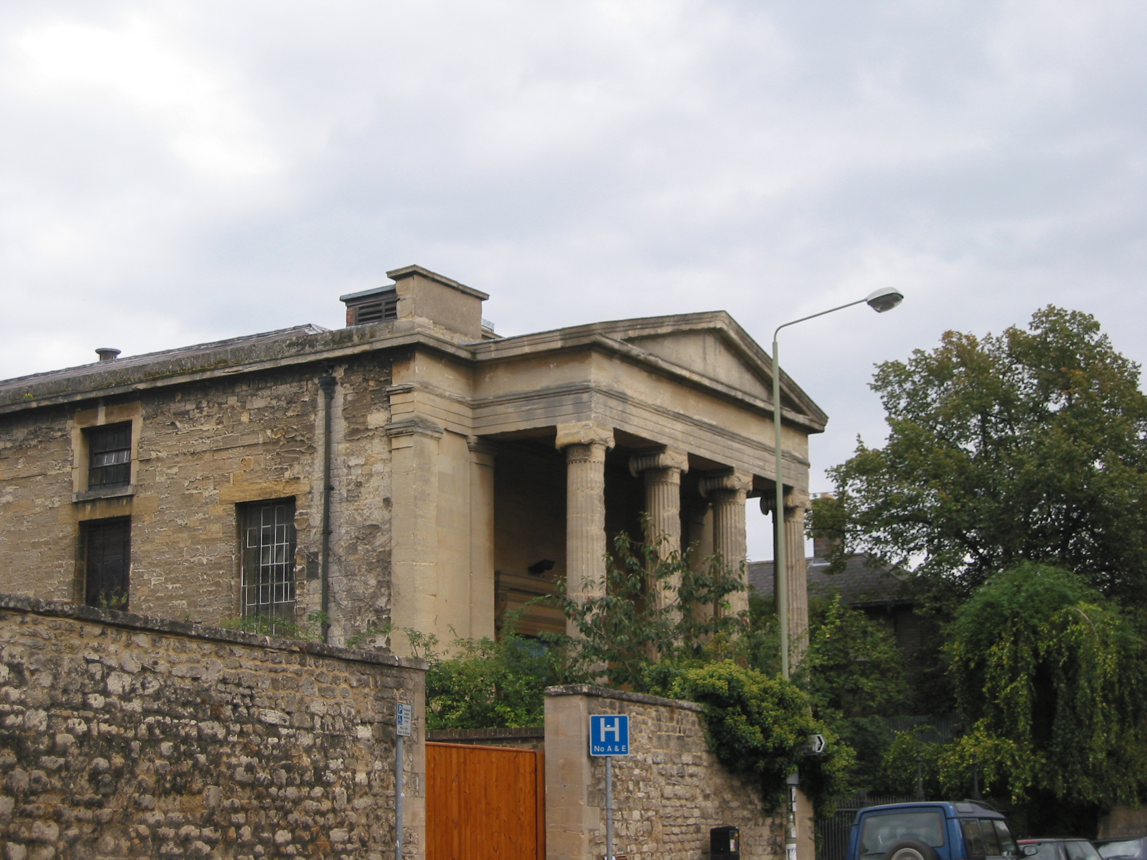 A former church converted to a bar on Walton Street, Jericho, Oxford, England.